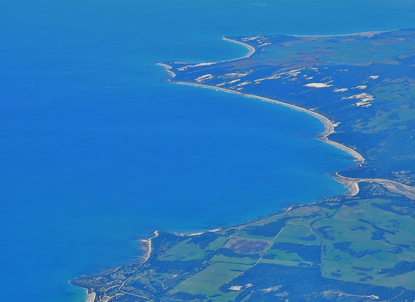 Tasmania - North Coast